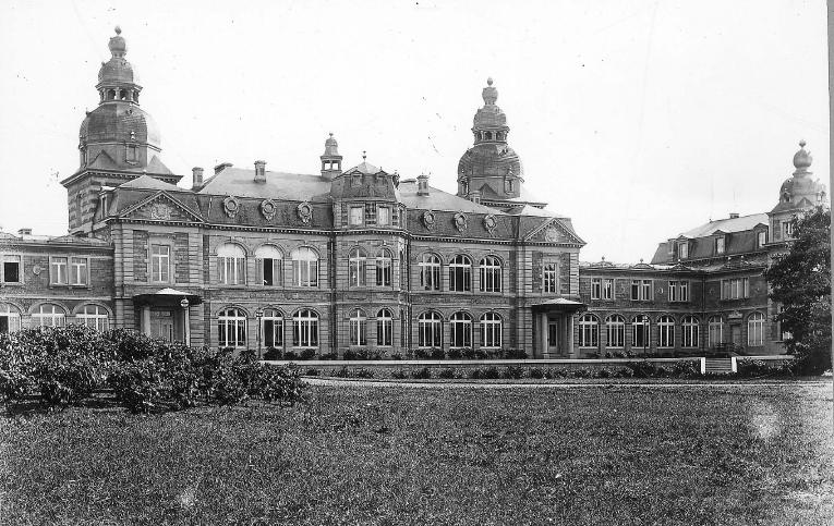 The Castle of Ardenne in 1898 as it opened as a luxury hotel. Photo by Joseph Tist (1835-1904).